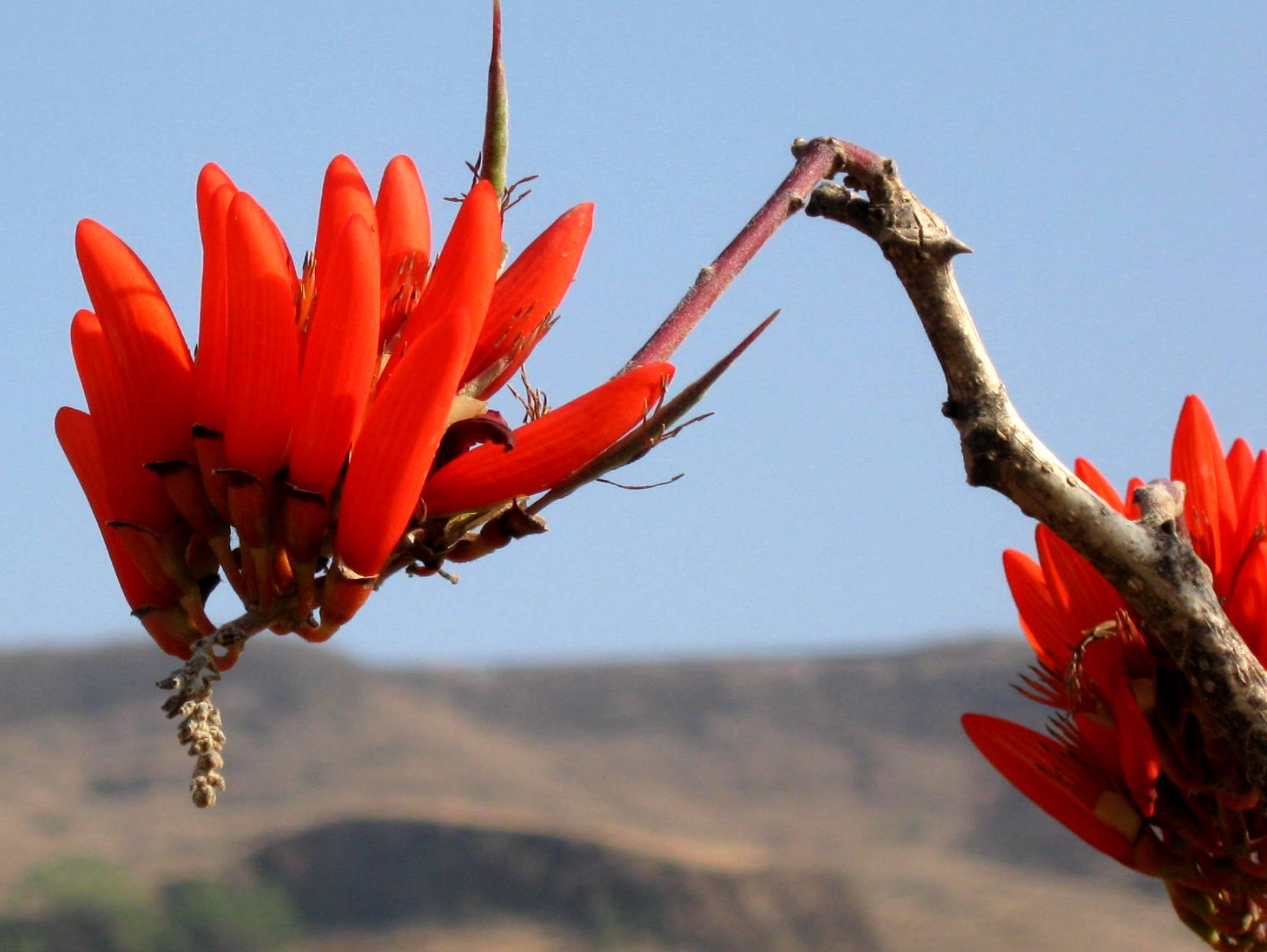 flower